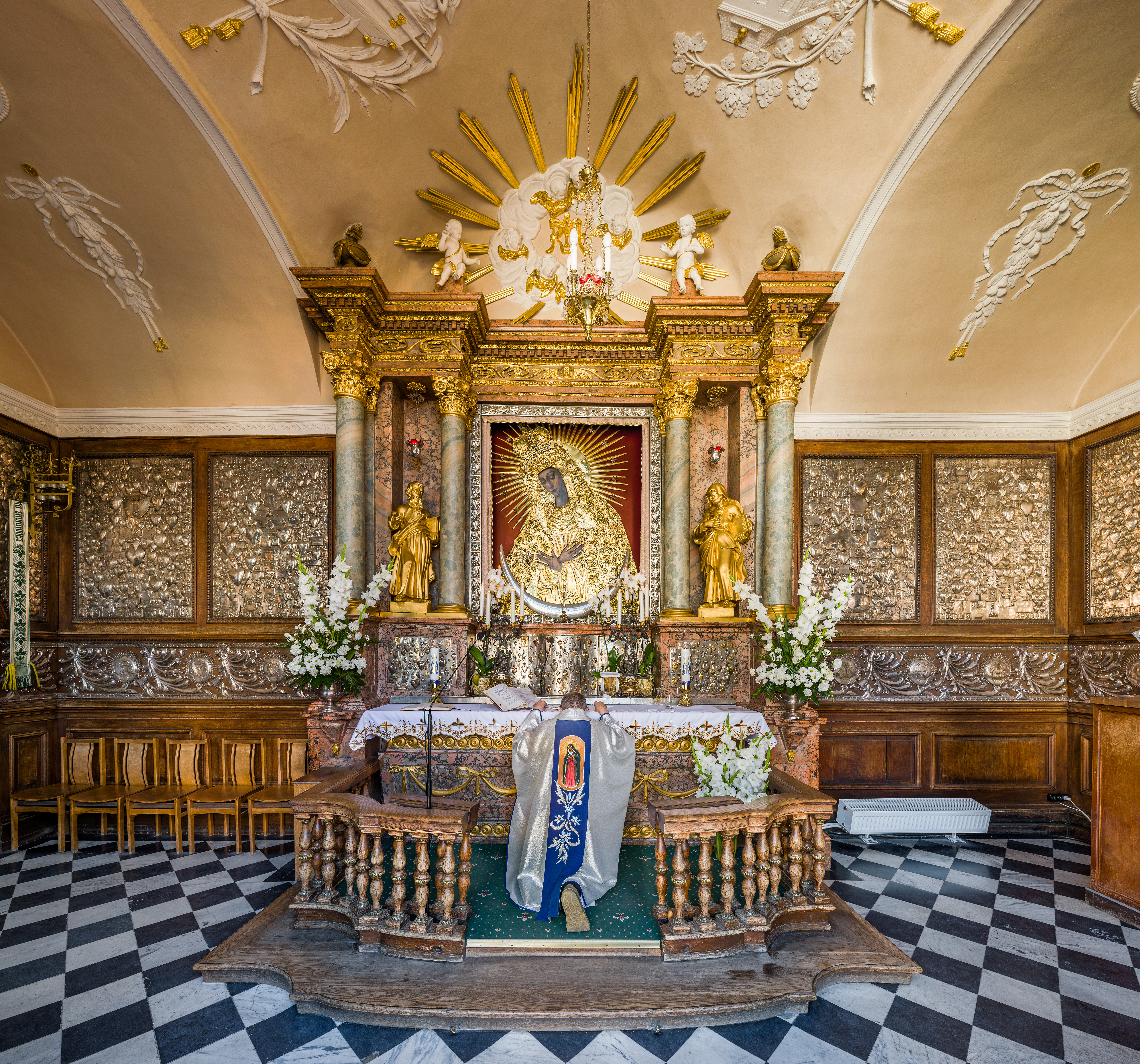 The interior of Our Lady of the Gate of Dawn during a service in Vilnius, Lithuania.